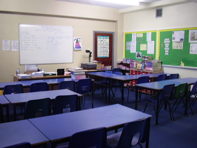 View of MFL classroom at Chamberlayne College (then Chamberlayne Park).